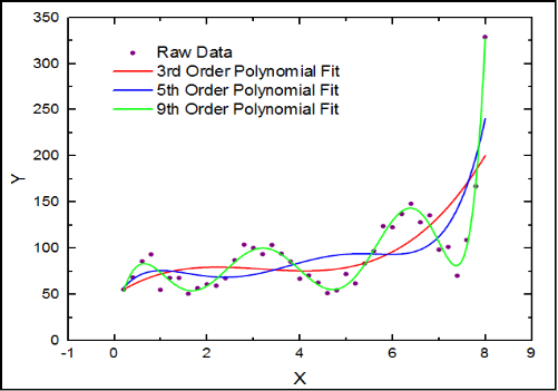 polynomial regression